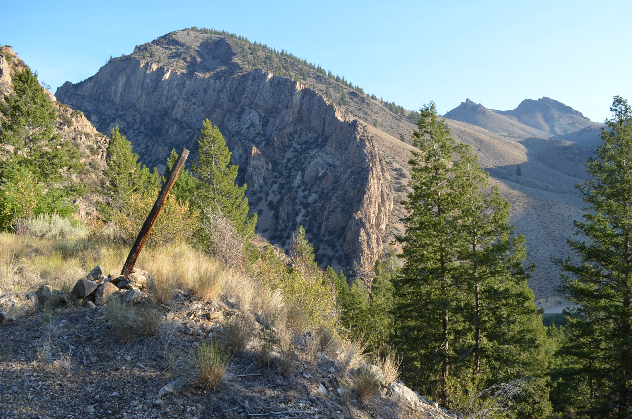 Bayhorse Creek, BLM Challis Field Office, A. Hedrick, BLM